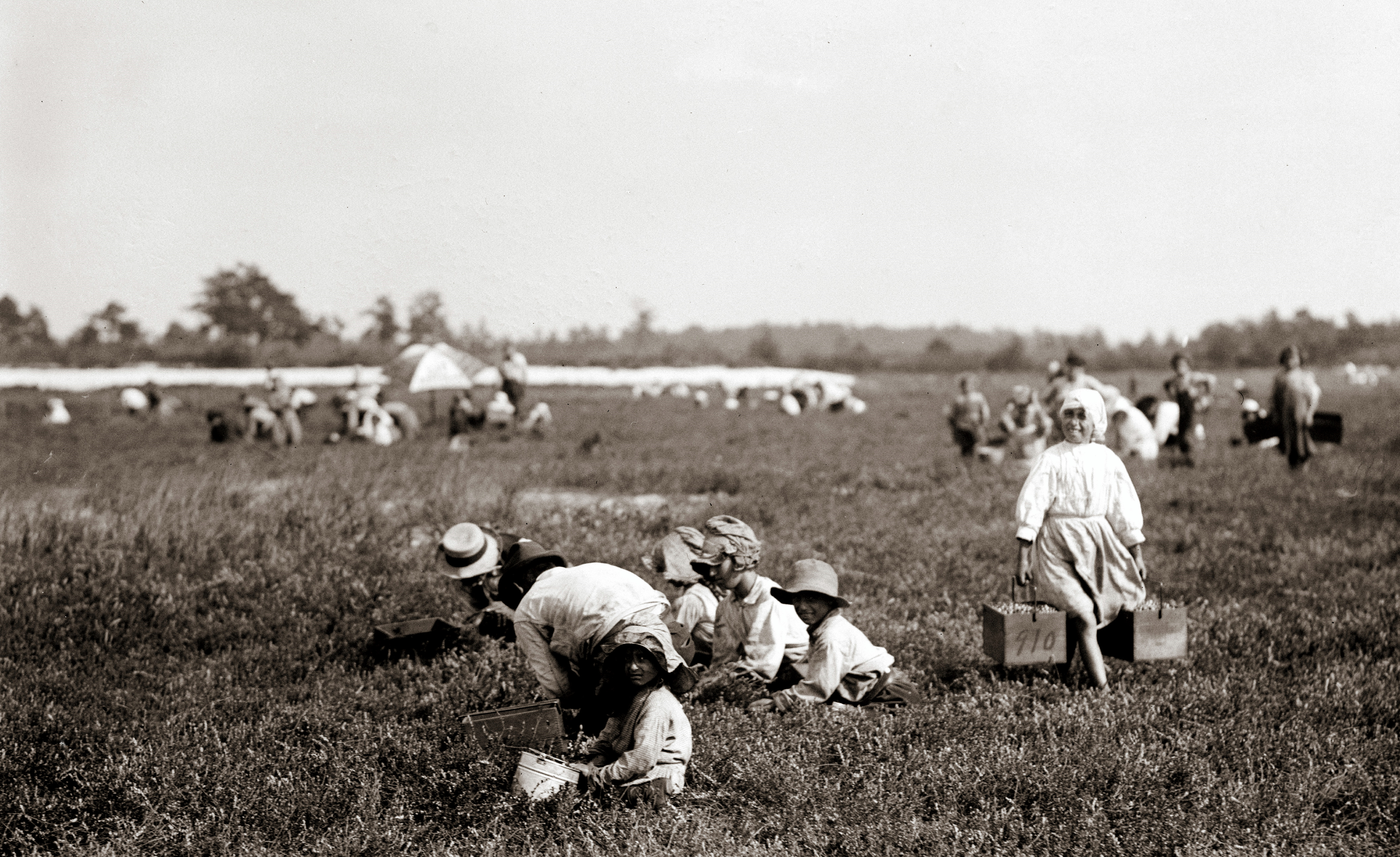 Teresa Lerre (the girl looking at the camera) was a 5 year old living at 1024 South 9th Street in Philadelphia, Pennsylvania. Teresa worked as a cranberry picker, as did her father and siblings (sitting behind her). The cranberry field they're harvesting in this image was in Whites Bog, Browns Mills, New Jersey. The girl walking towards the photographer was known as a "carrier." The children were still required to work in the cranberry fields even though Philadelphia schools had began four weeks prior. The Lerre family told the photographer it would be another two weeks before the job was completed.